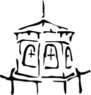 Union House